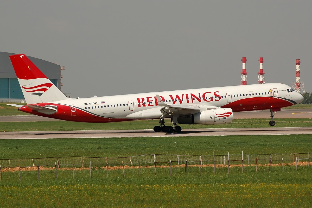 Red Wings Airlines Tupolev Tu-204-100